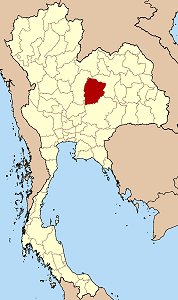 Map of Thailand hightlighting Chaiyaphum province